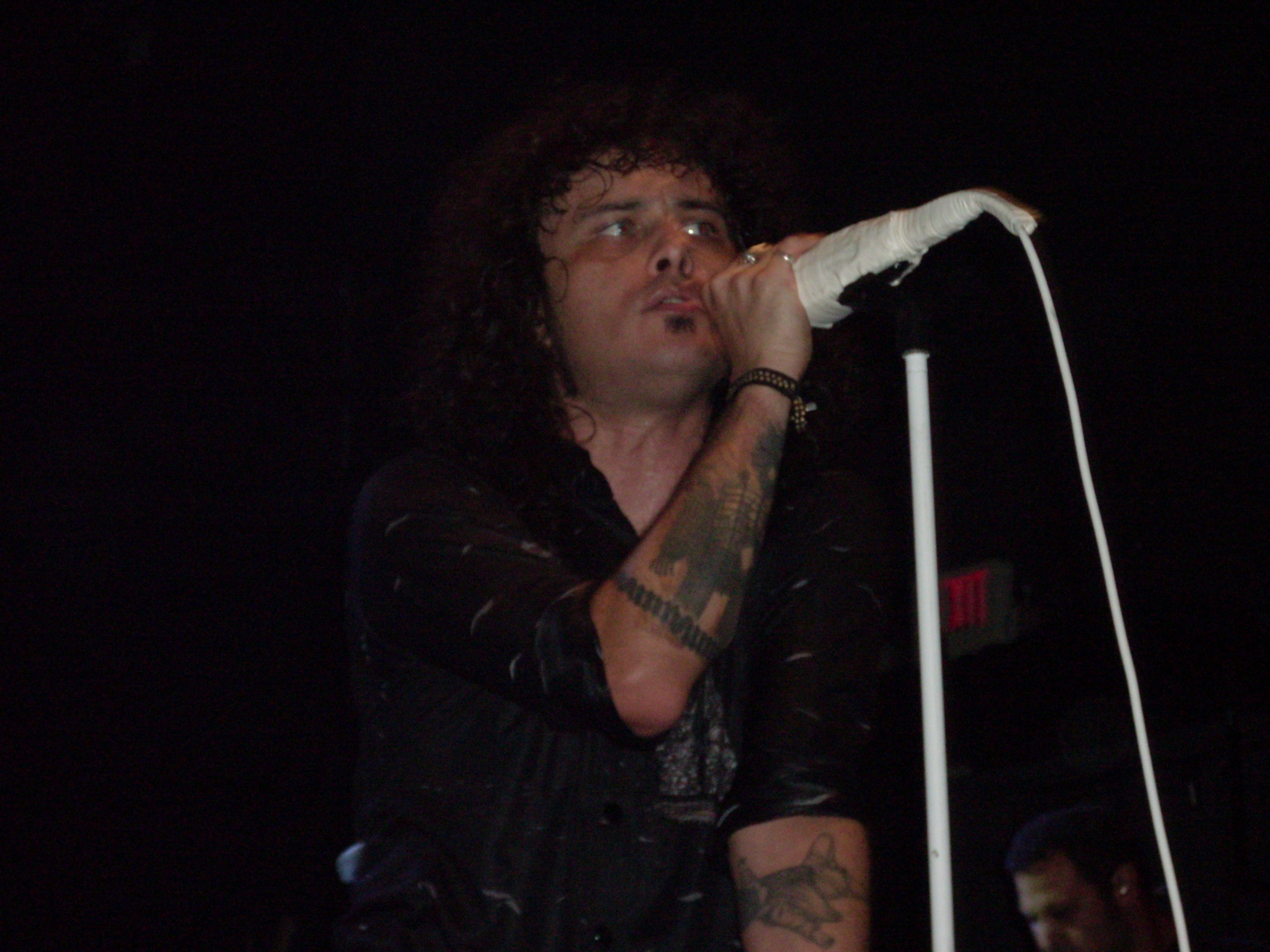 Cedric Bixlar-Zavala live at the LC Pavilion in Columbus, OH